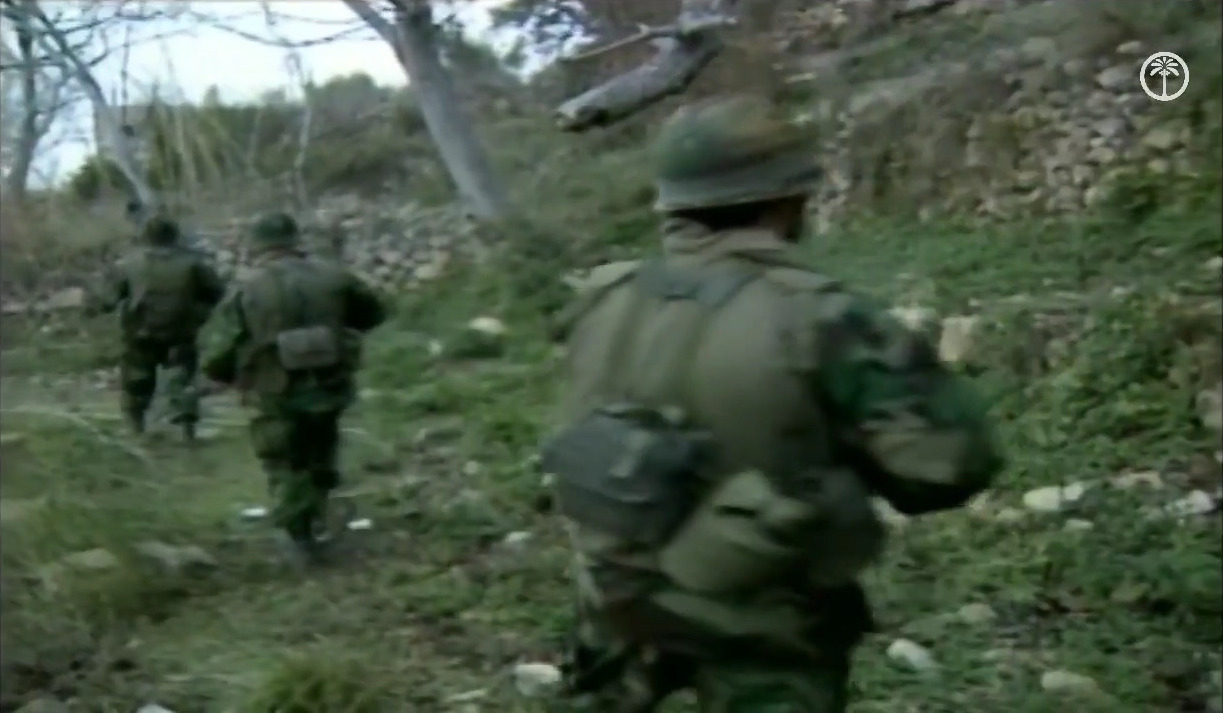 Hezbollah fighters walking. Appears to be 1990s era.